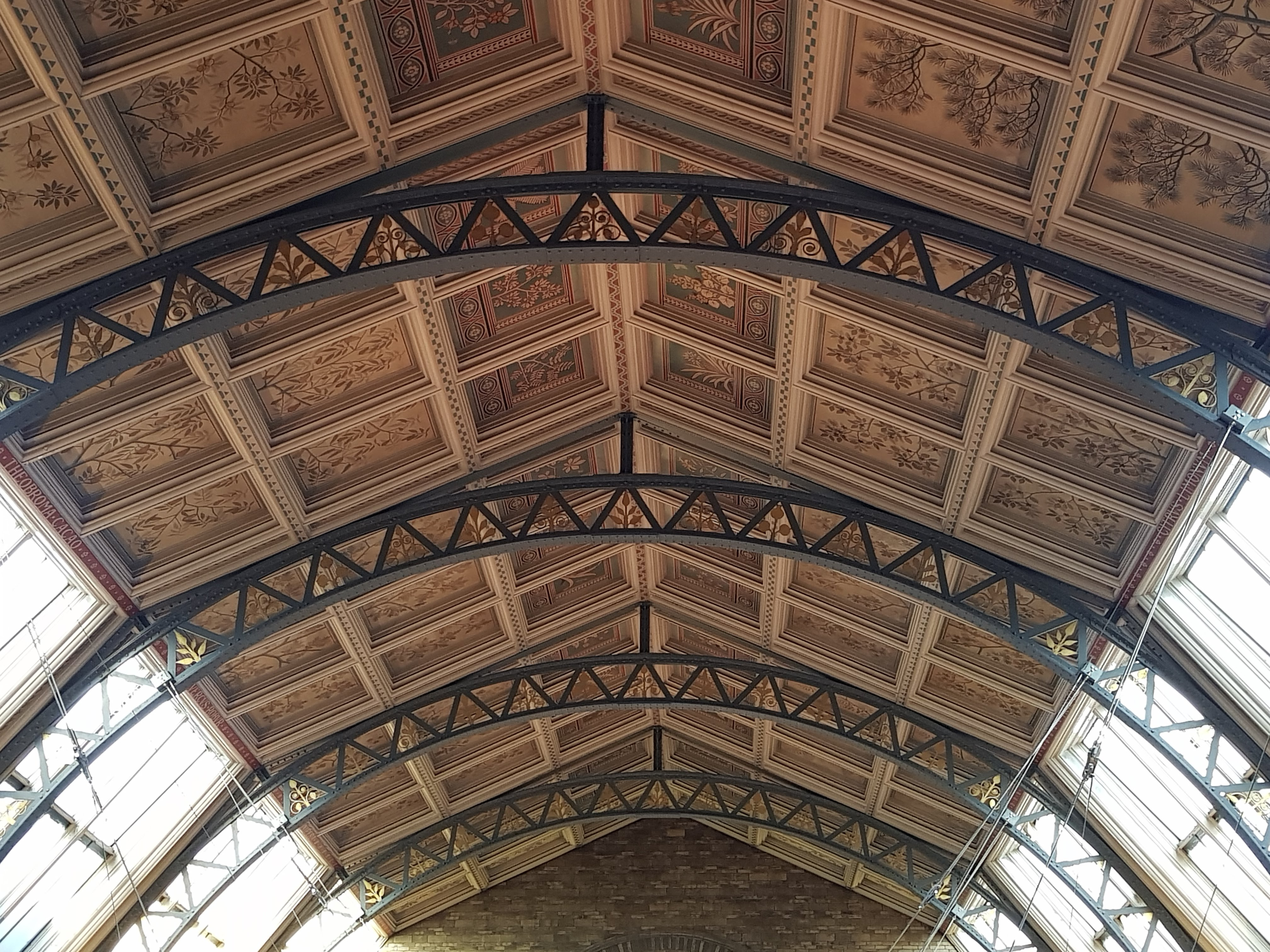 Hintze Hall, Natural History Museum, London, December 2017